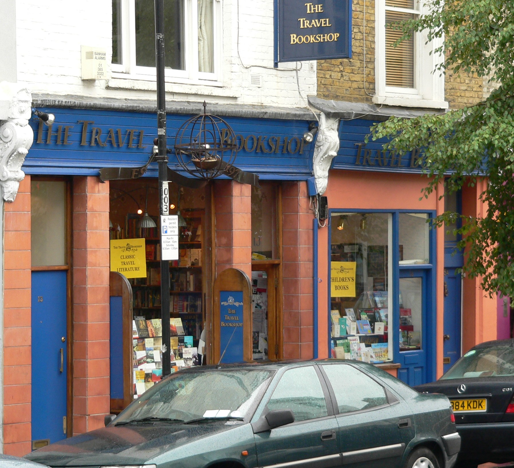 The Travel Bookshop located at 13 Blenheim Crescent, Notting Hill, London 2012 Google Maps photograpg shows this shop called "The Notting Hill Bookshop"